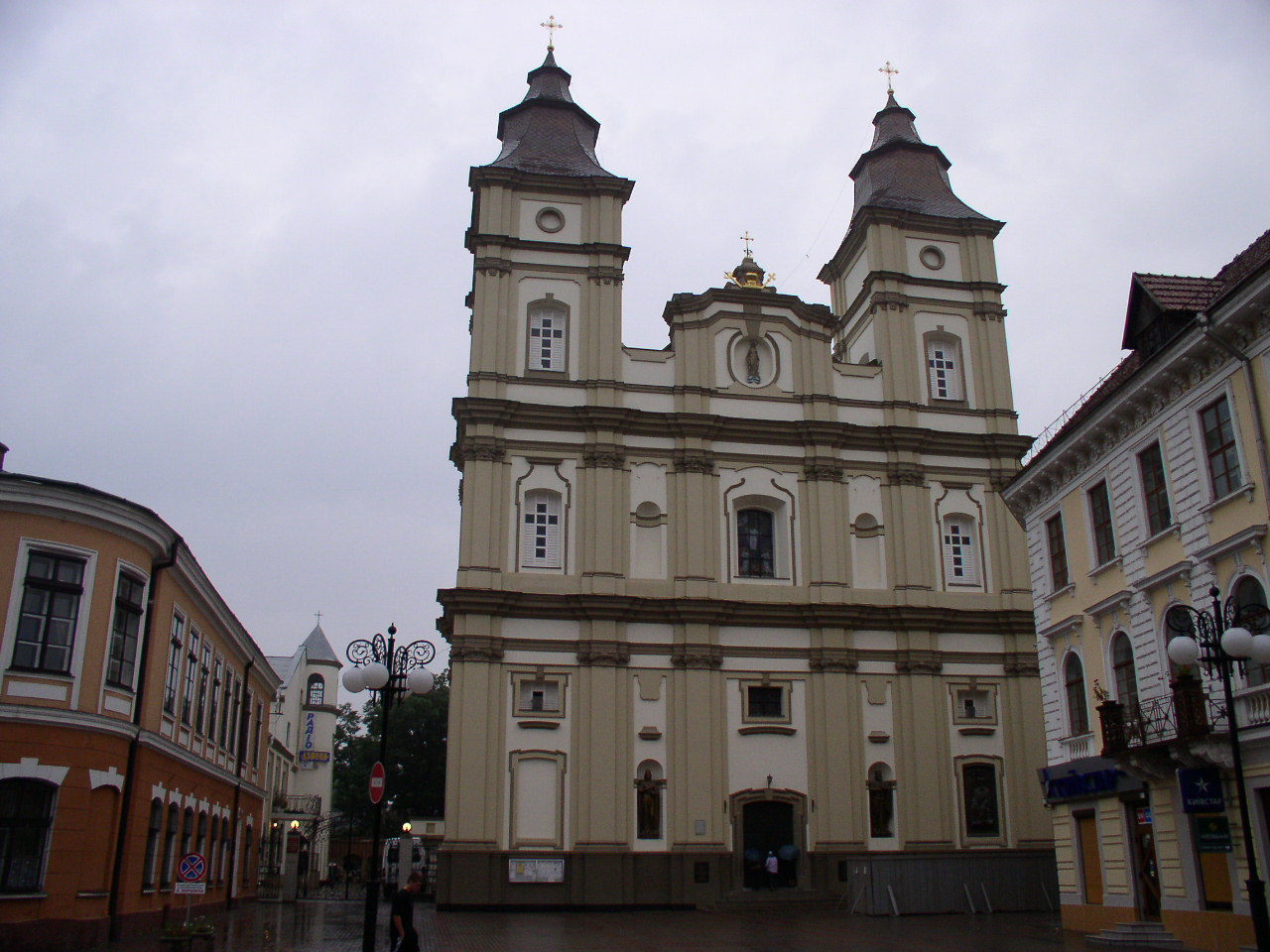 Cathedral of the Holy Resurrection. Ivano-Frankivsk, Ukraine.